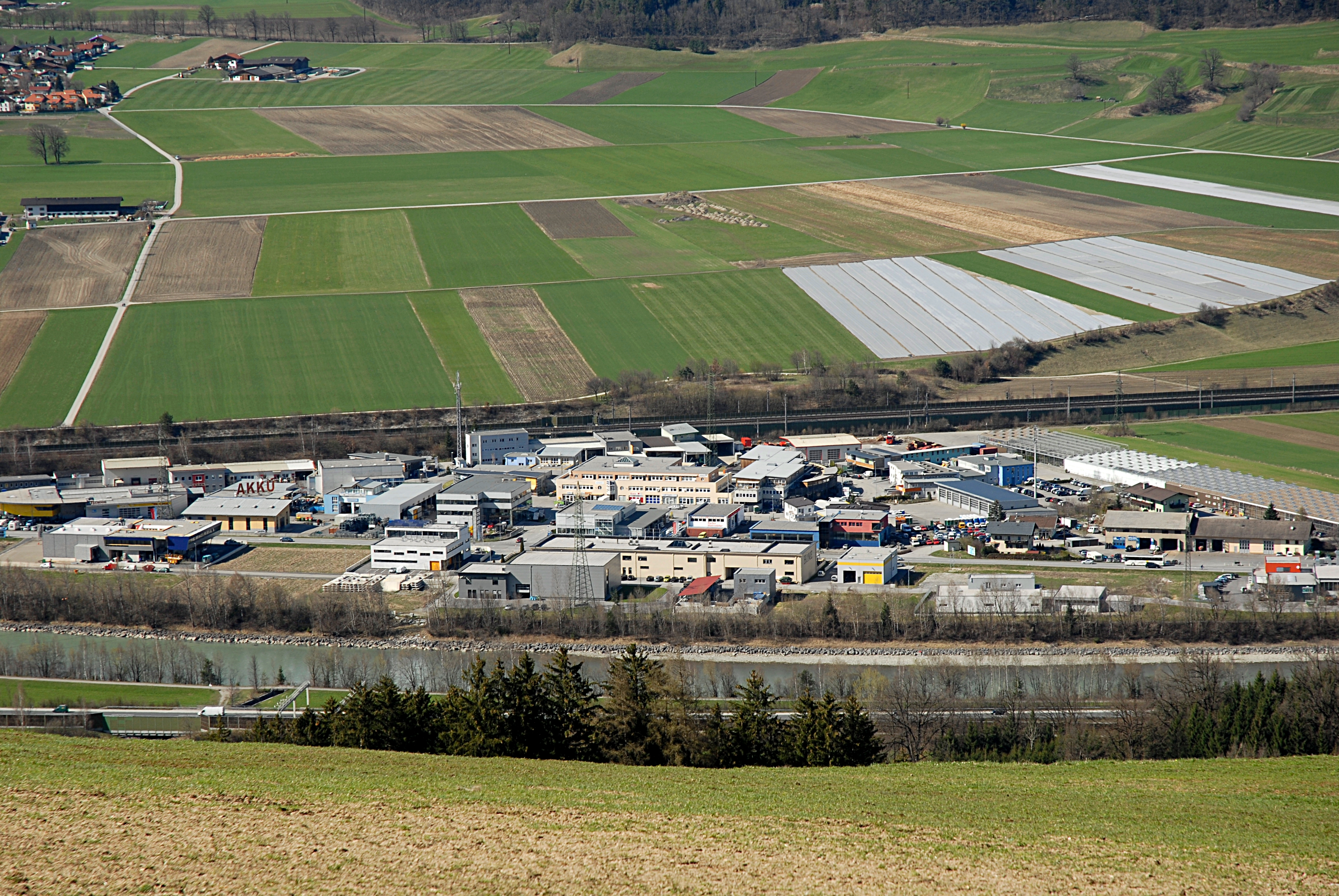 The businesspark of Mils near Hall, Tyrol, Austria